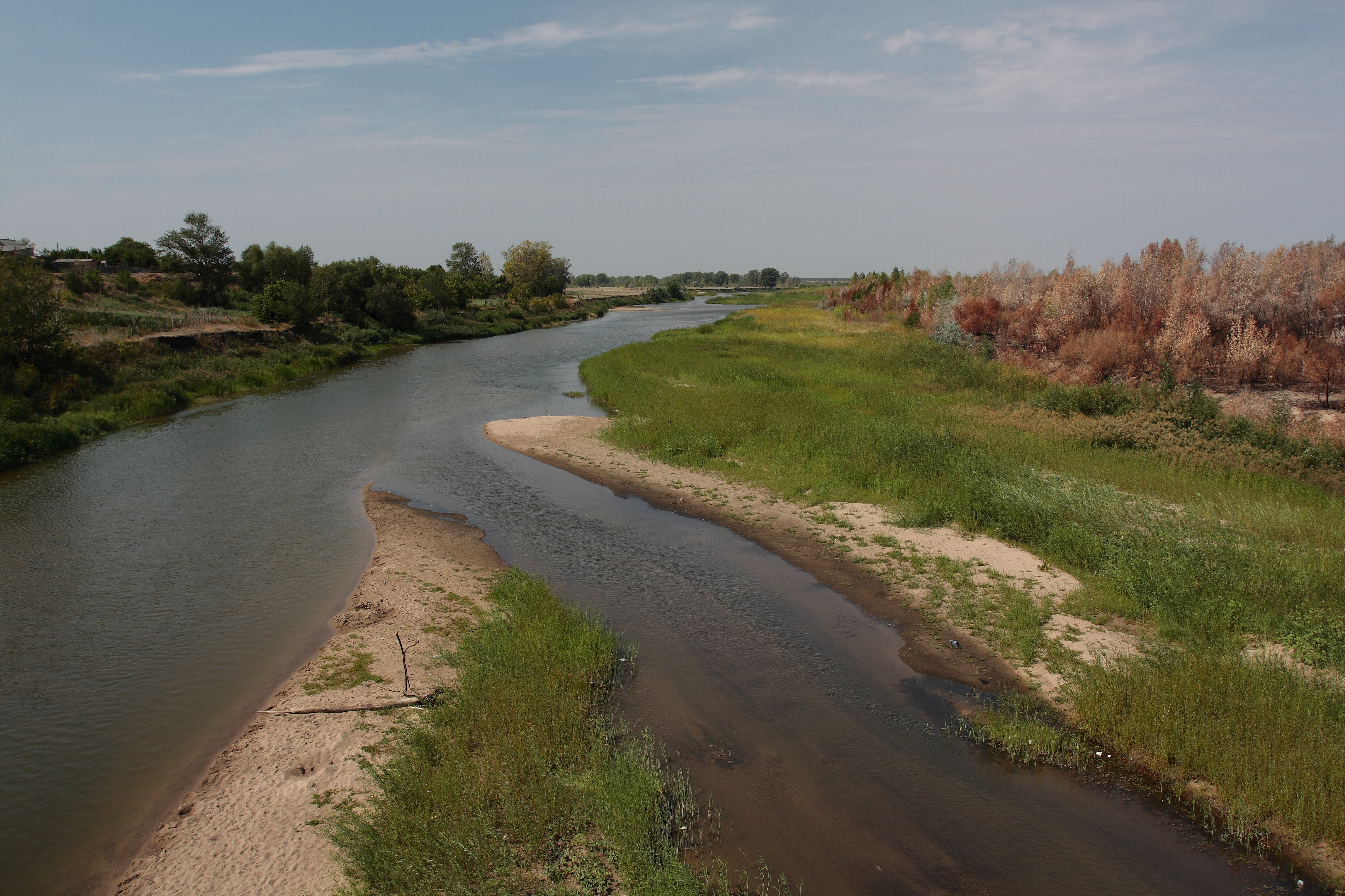 Ilek River